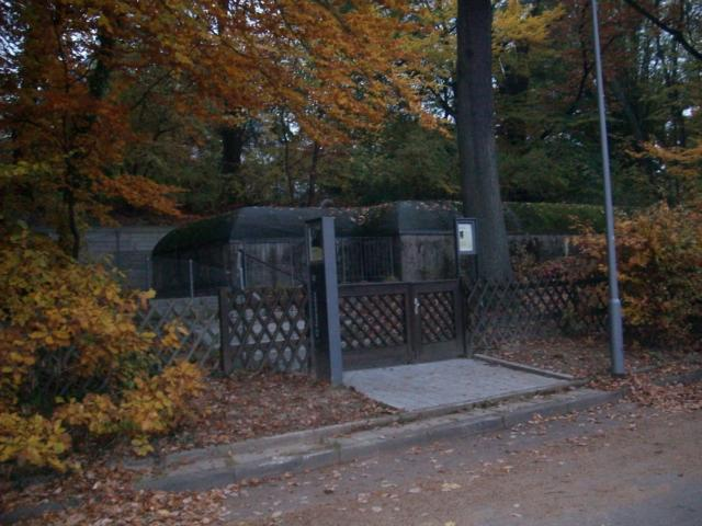 Memorial for former KZ in Wiesbaden "Unter den Eichen". You can see the former SS-bunker.